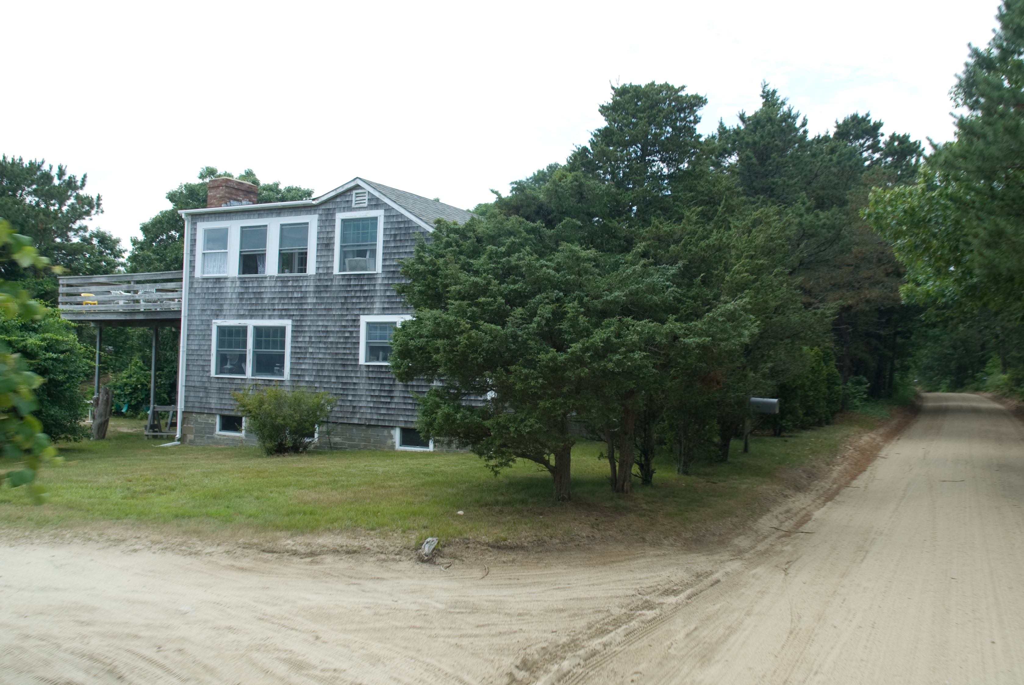 Home on Chappaquiddick Island, Edgartown, Massachusetts